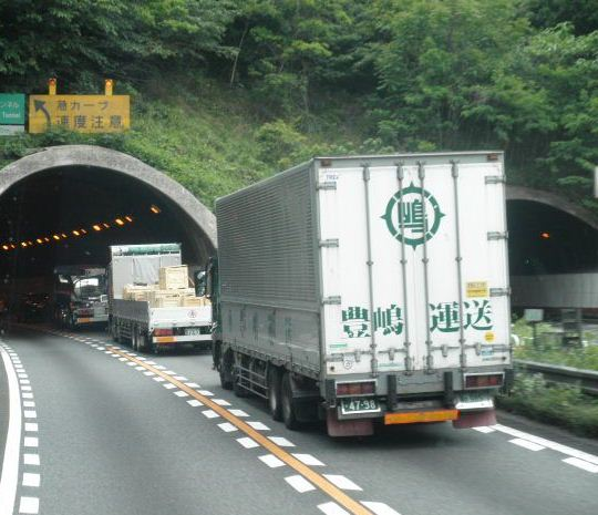 Higashisuma suma-ku Kobecity Hyogopref Tsukimiyama Tunnel